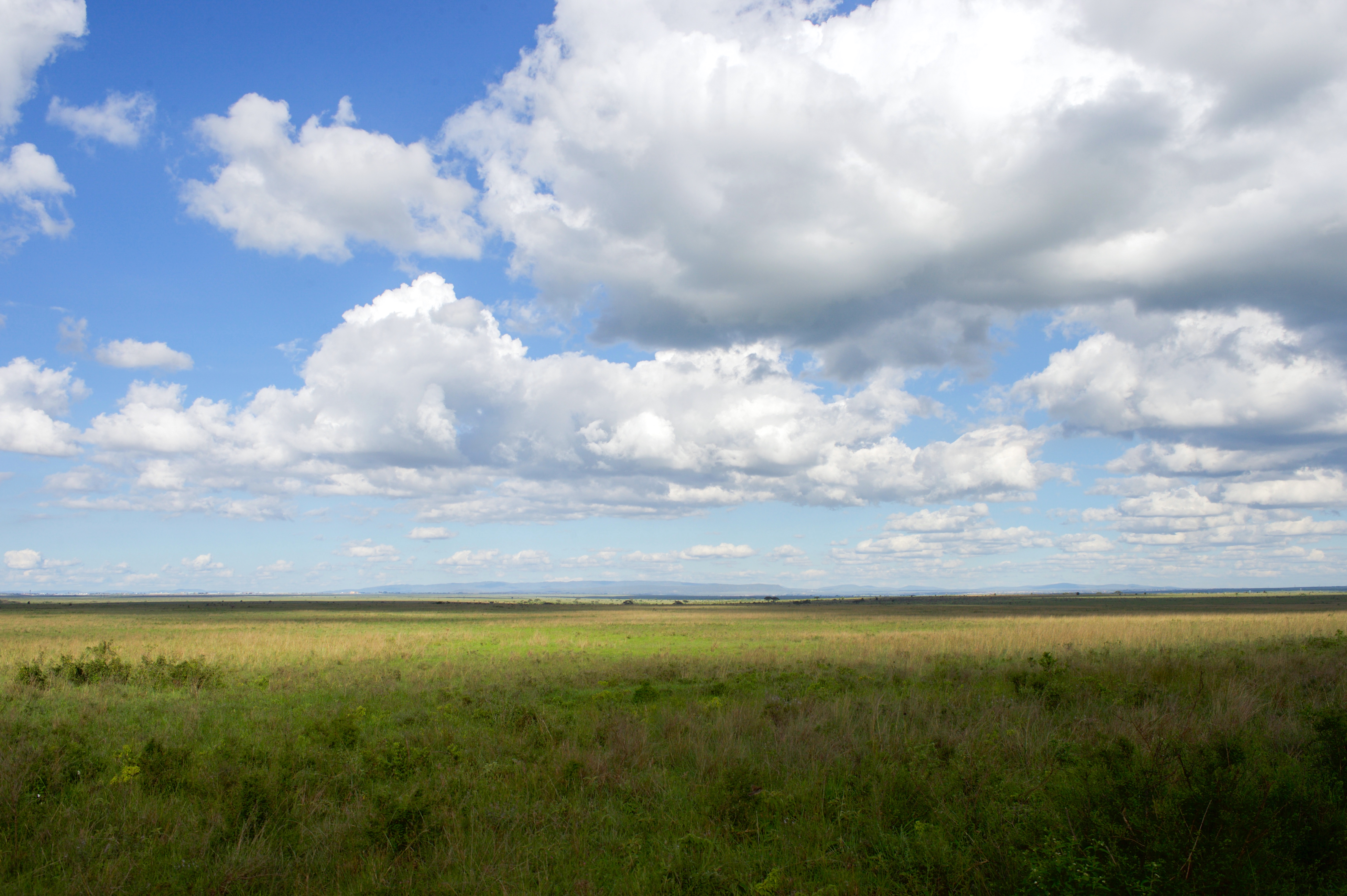 A photo shows the savannah in Nairobi National Park in Nairobi, Kenya, on May 3, 2015, as seen while U.S. Secretary of State John Kerry made a wildlife tour and visited the Sheldrick Elephant Orphanage before a series of government meetings. [State Department Photo/Public Domain]